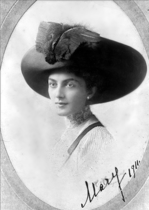 Georgian Princess Mary Eristavi (nee, Sher'vashidze),Galaktion Tabidze's muse.(1911)